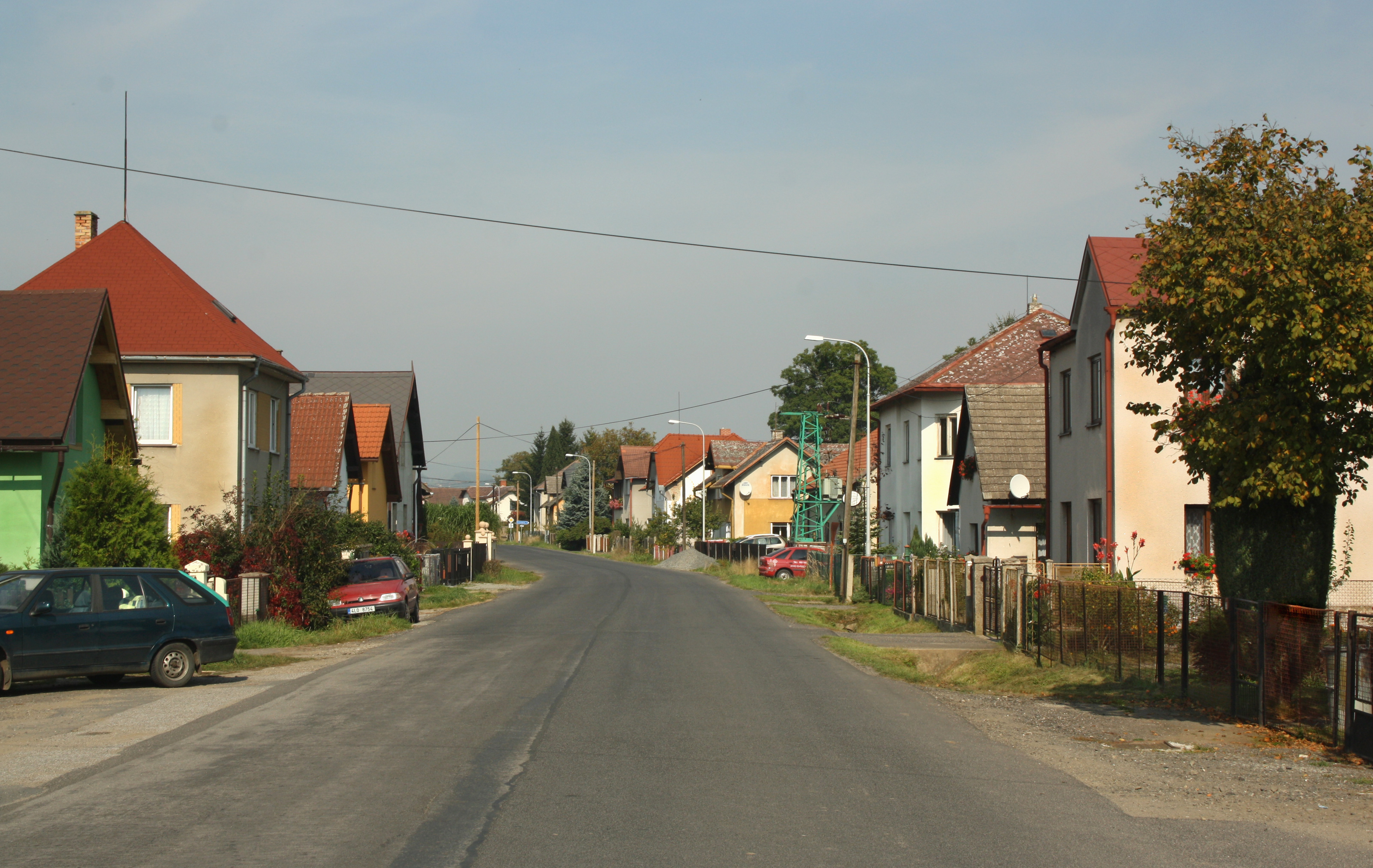 Street No 279 in Doubrava, part of Žďár, Czech Republic